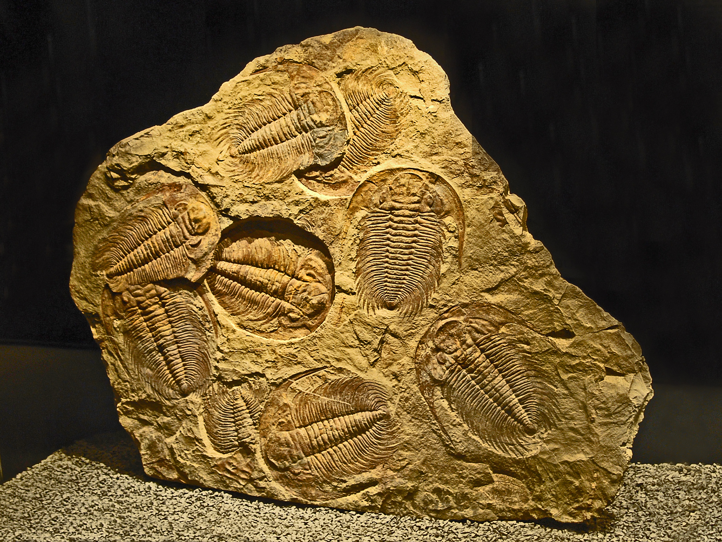 Acadoparadoxides briareus from Morocco. On display at the Museo Civico di Storia Naturale di Milano